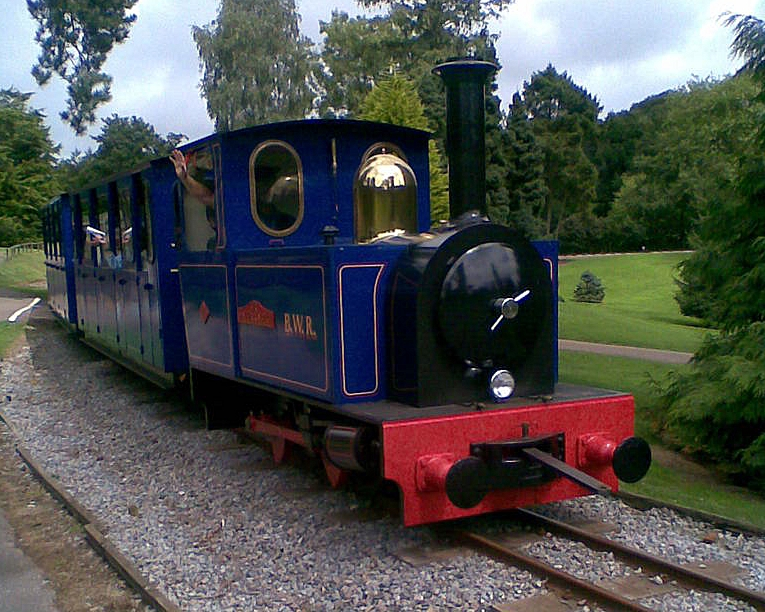 Bicton Woodland Railway, 18-inch (457 mm) gauge. Bicton Park Botanical Gardens, East Budleigh, Budleigh Salterton, Devon, United Kingdom EX9 7JT